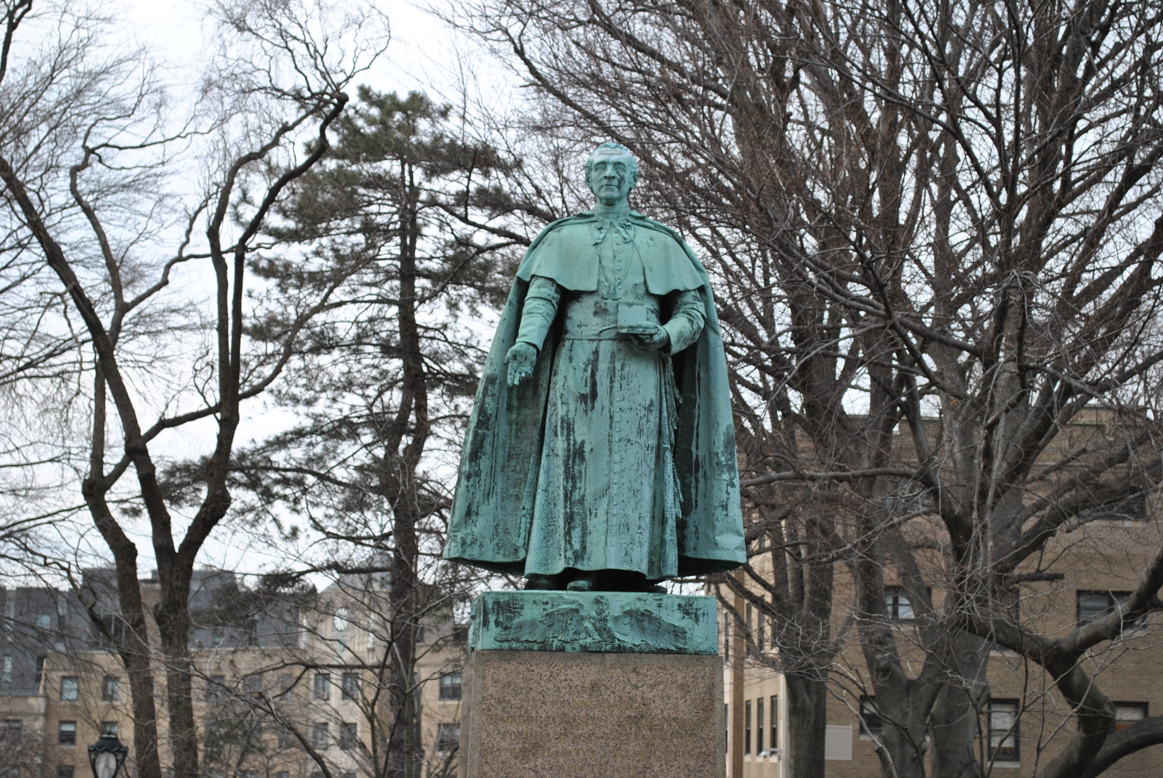 Fordham University Statute